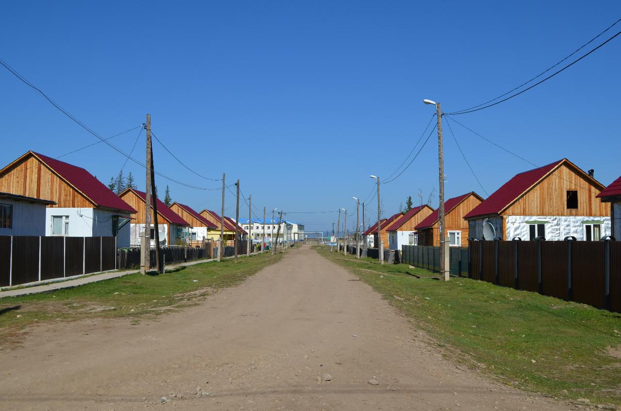 This photos are made during cruise Yakutsk — Lеnskiye Shchyoki, Lena Cheeks — Yakutsk (with arrival in Mirny), 05.09−17.09.2016